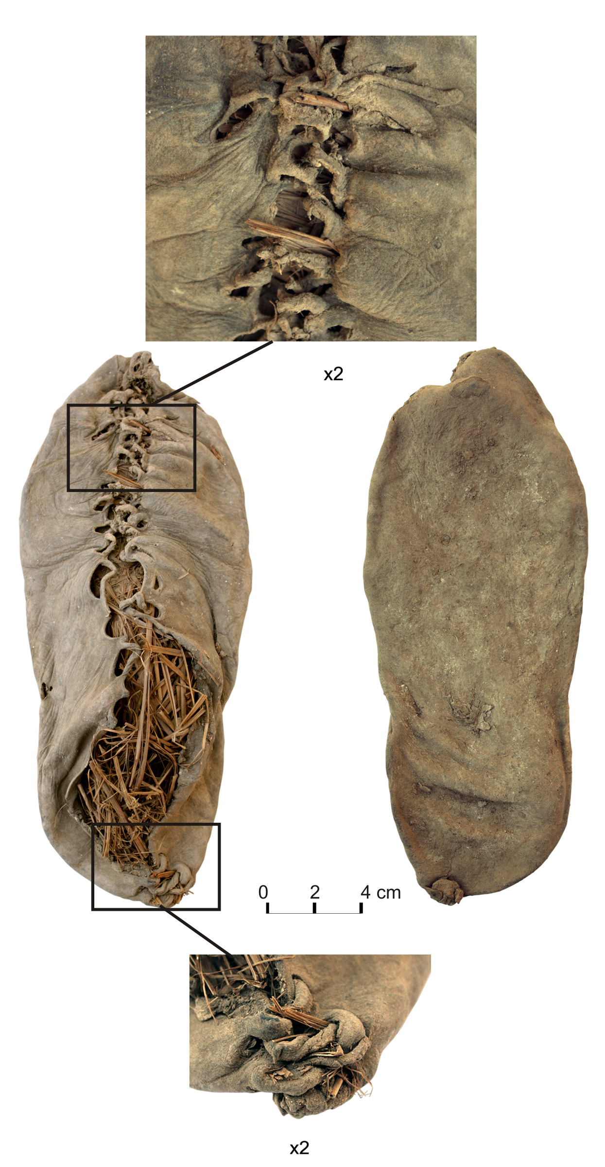 As of 2010, the oldest known leather shoe, recovered at the base of a Chalcolithic pit in the cave of Areni-1, Vayots Dzor, Armenia.